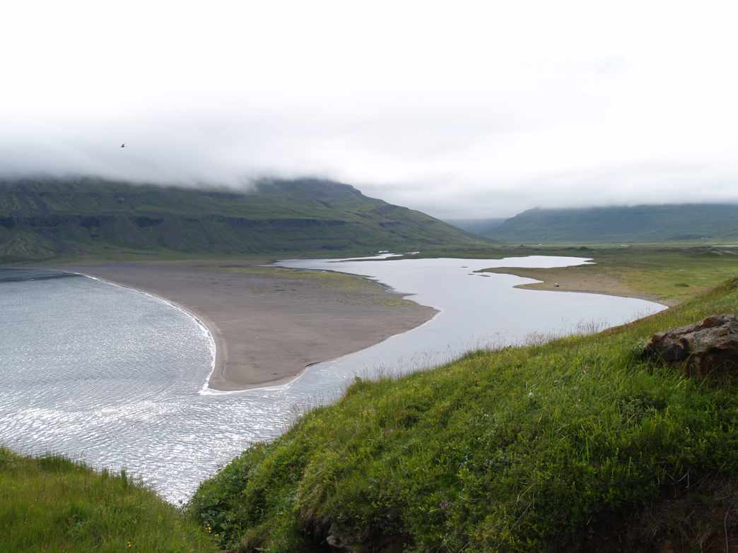 Loðmundarfjörður fjord in East Iceland, Borgarfjörður eystri